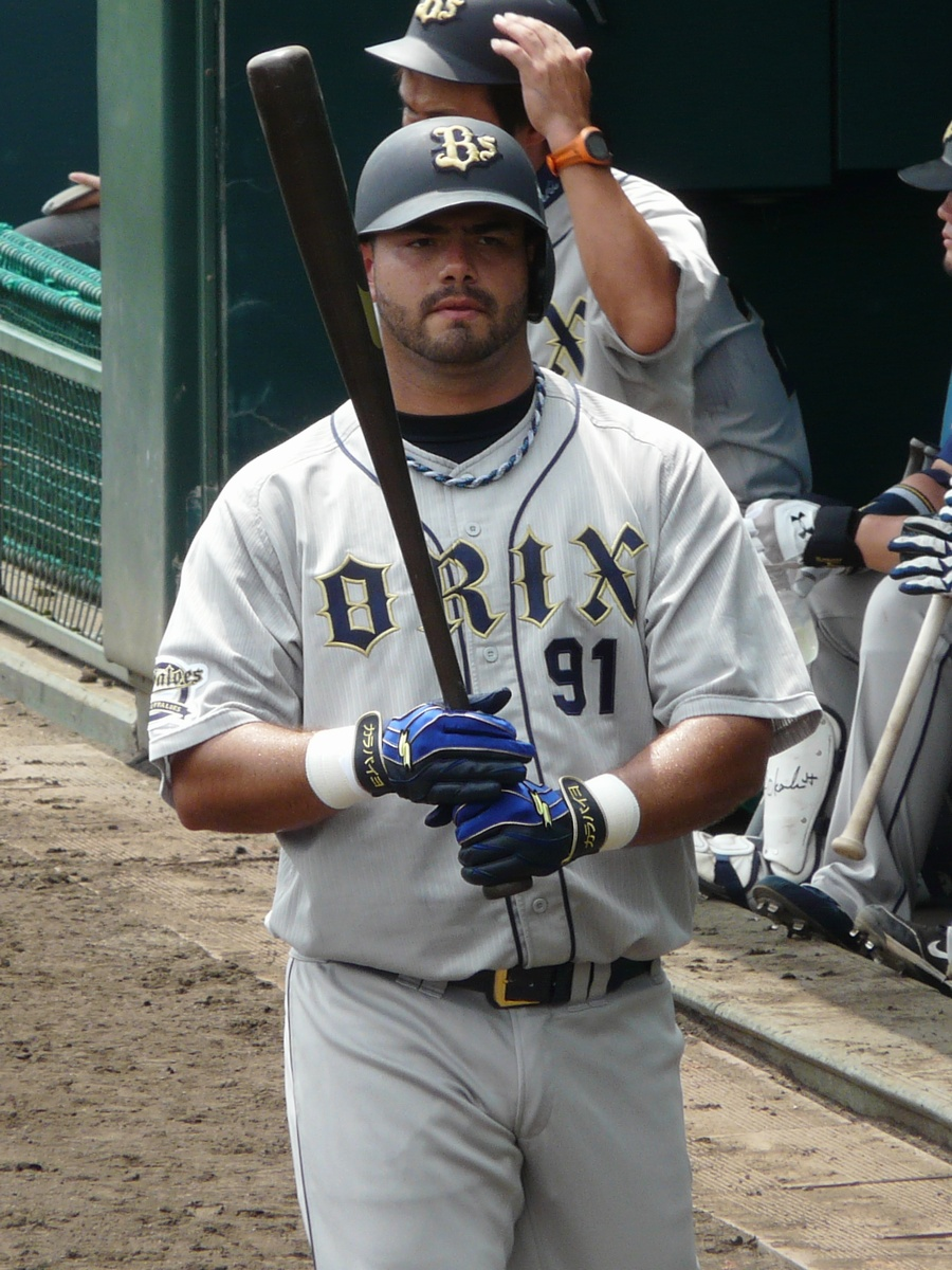 Francisco Caraballo, outfielder of the Orix Buffaloes, at Hanshin Naruohama Baseball Ground.